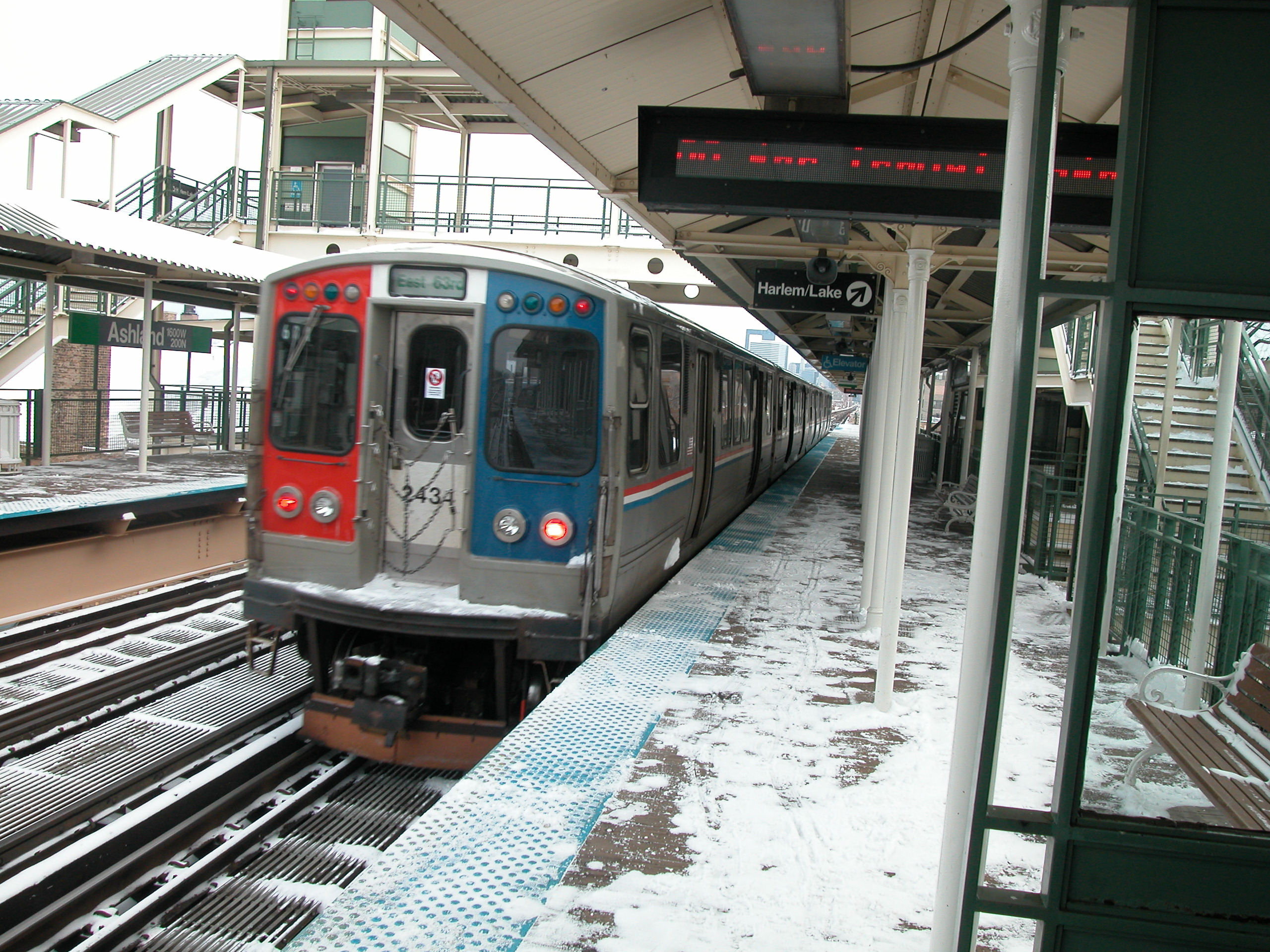 20021225 02 Green Line L at Ashland Ave.